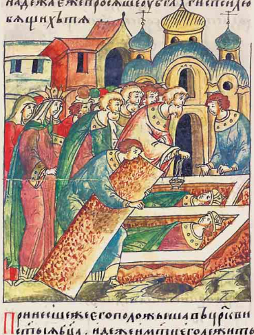 Burial of Vasilko